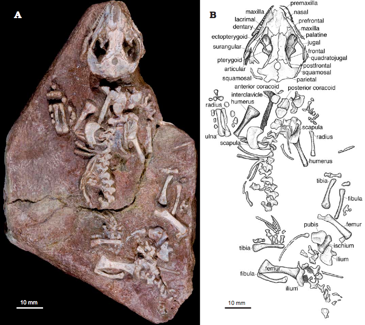 Procolophonid Sauropareion anoplus Modesto, Sues, and Damiani, 2001, from Lower Triassic Katberg Formation, Vangfontein, Middelburg Dis− trict, South Africa; NMQR 3556. Photograph of skeleton in dorsal view (A) and interpretive drawing of skeleton in dorsal view (B). Areas without outlines represent impression